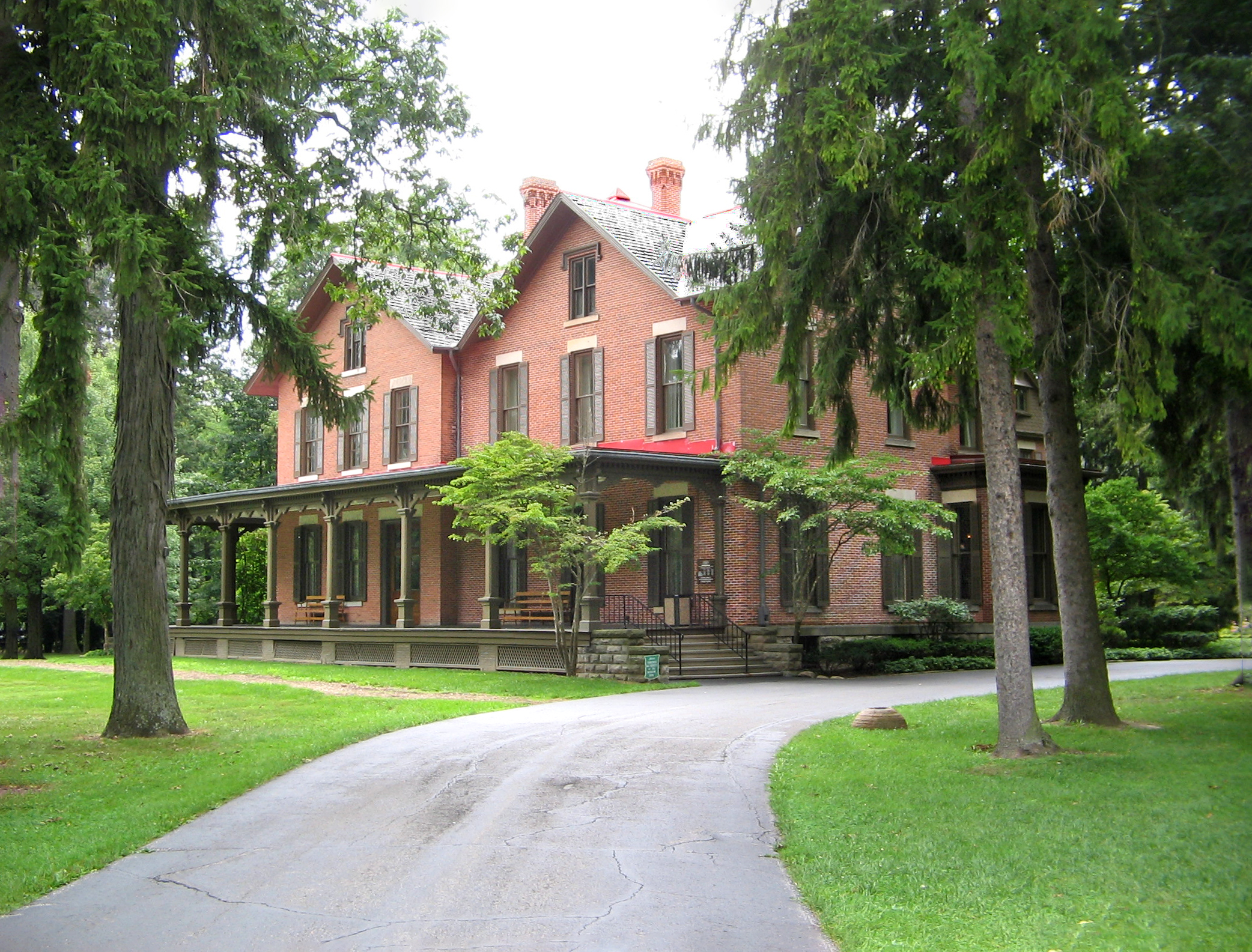 Looking up the main driveway to the front of Spiegel Grove, the home of U.S. President Rutherford B. Hayes in Fremont, Ohio, United States. The house has been declared a National Historic Landmark.